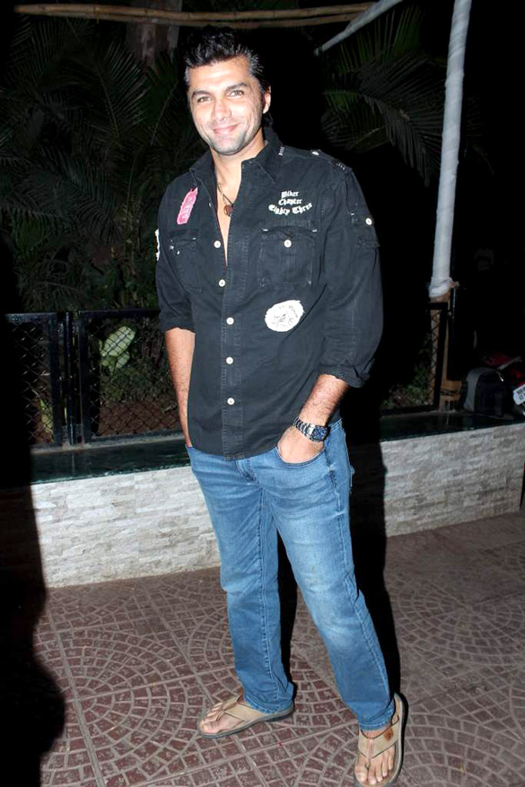 Bollywood & TV actors at Ekta Kapoor's birthday bash